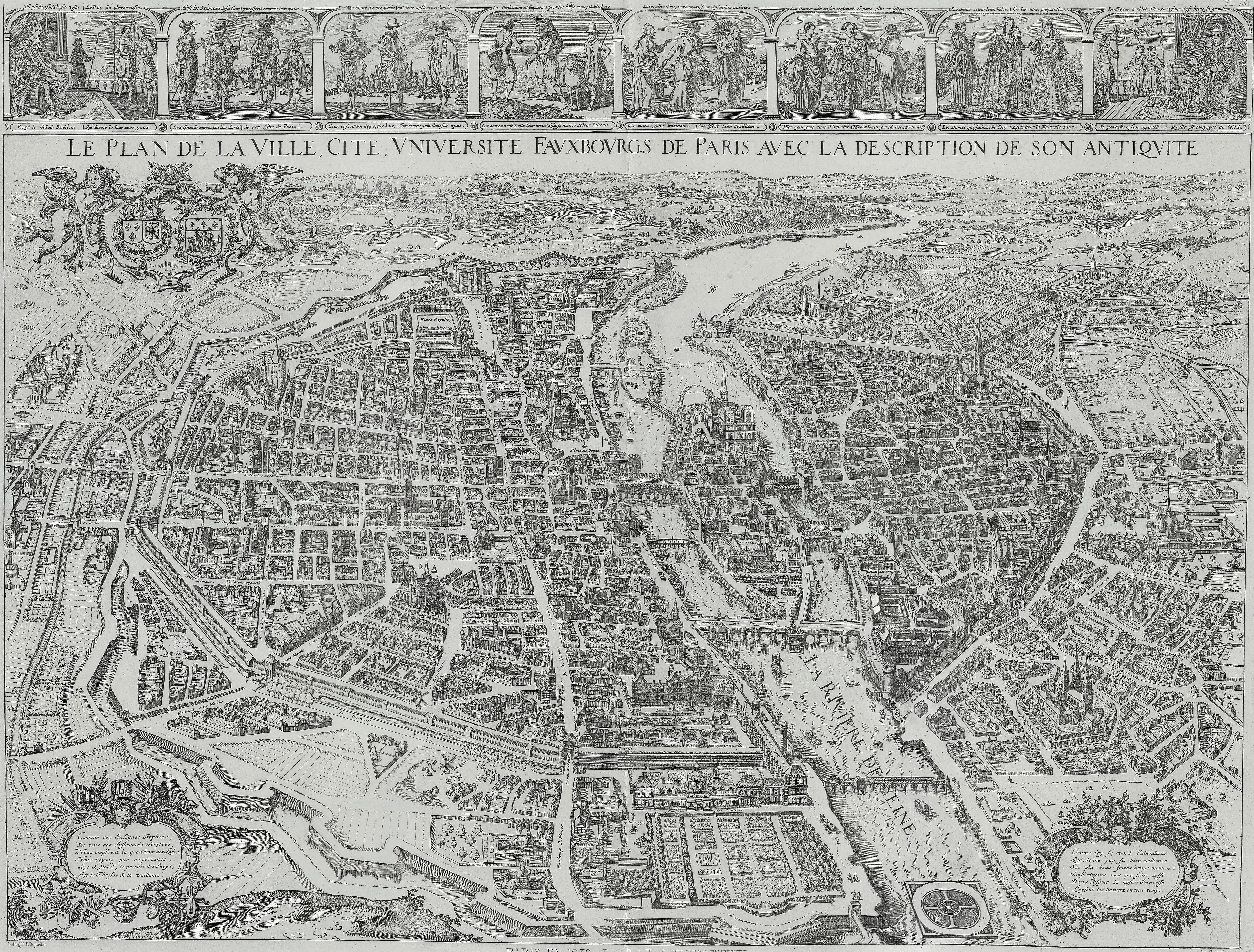 Map of Paris 1630 (Le plan de la ville, cité université, fauxbourgs de Paris, avec la description de son antiquité)